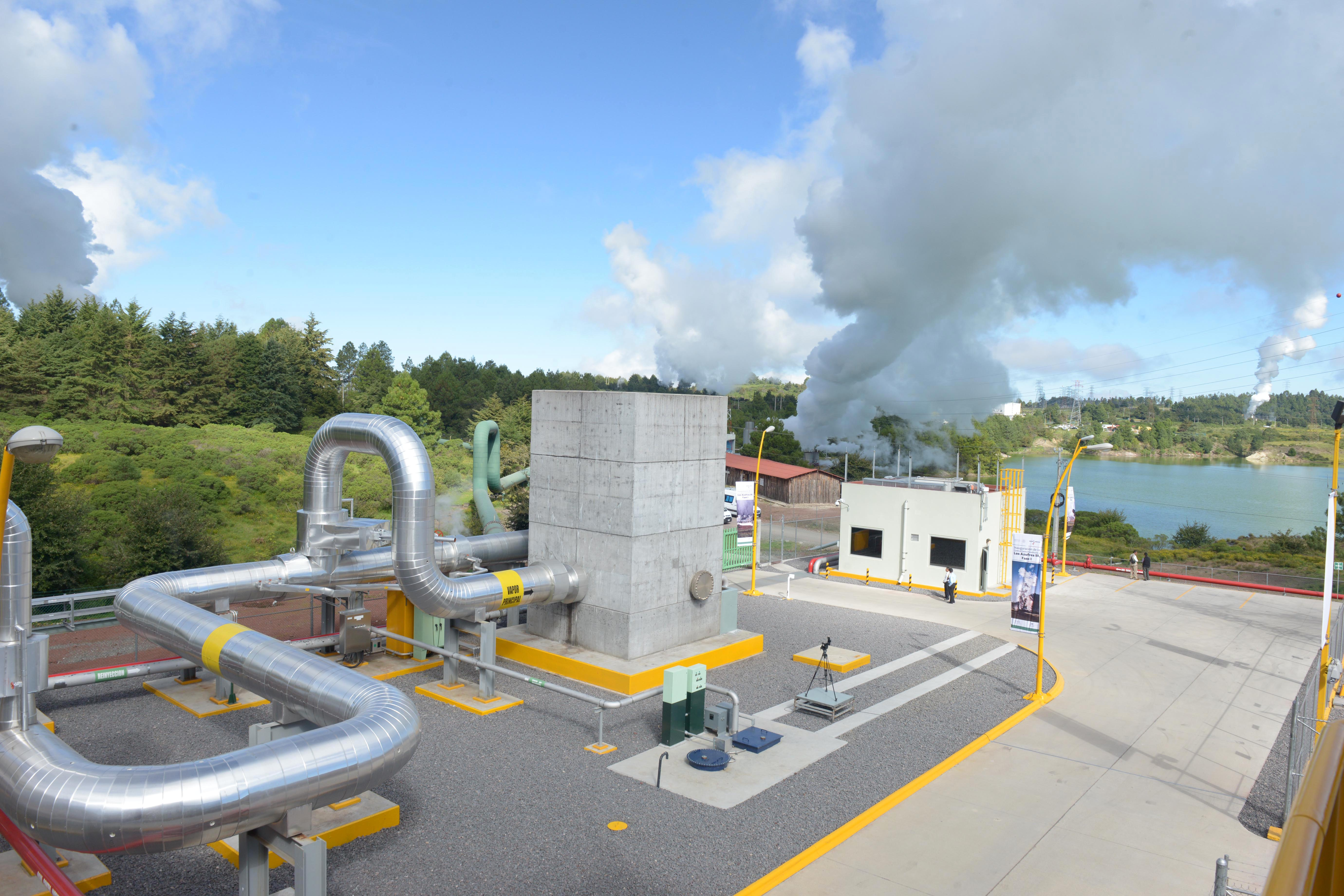 Inauguración de la Central Geotermoeléctrica Azufres III, Fase 1. Michoacán. 25 de septiembre de 2015.